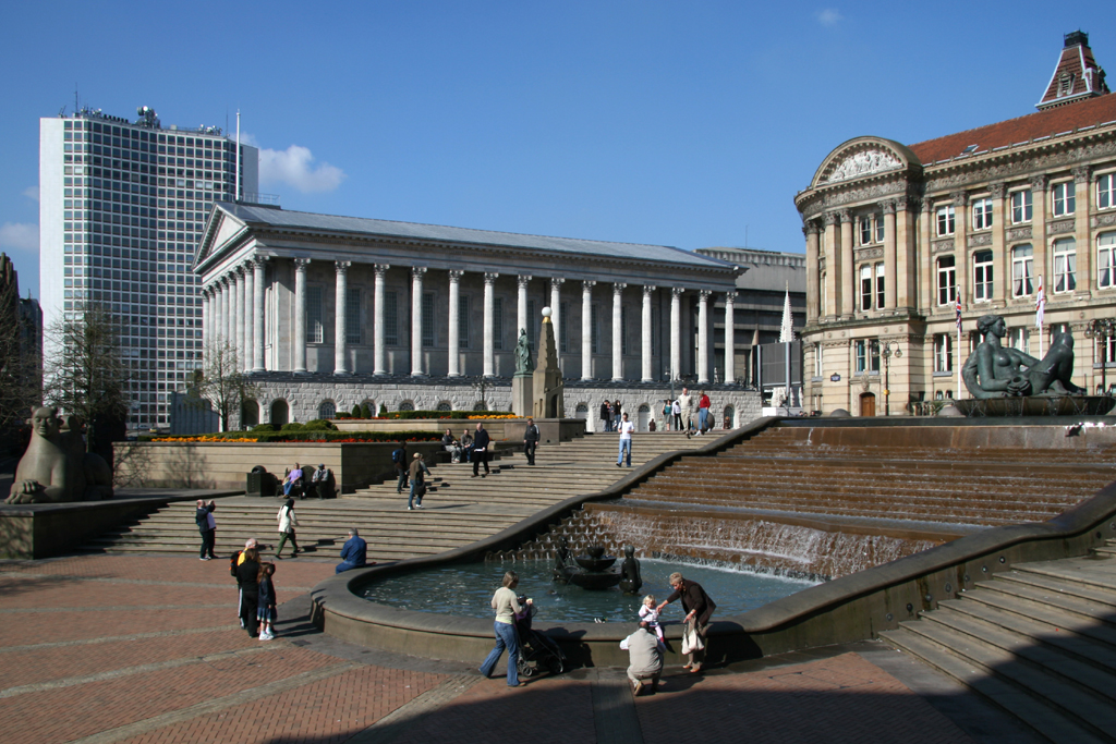 Birmingham Town Hall and Victoria Square, Birmingham, England.